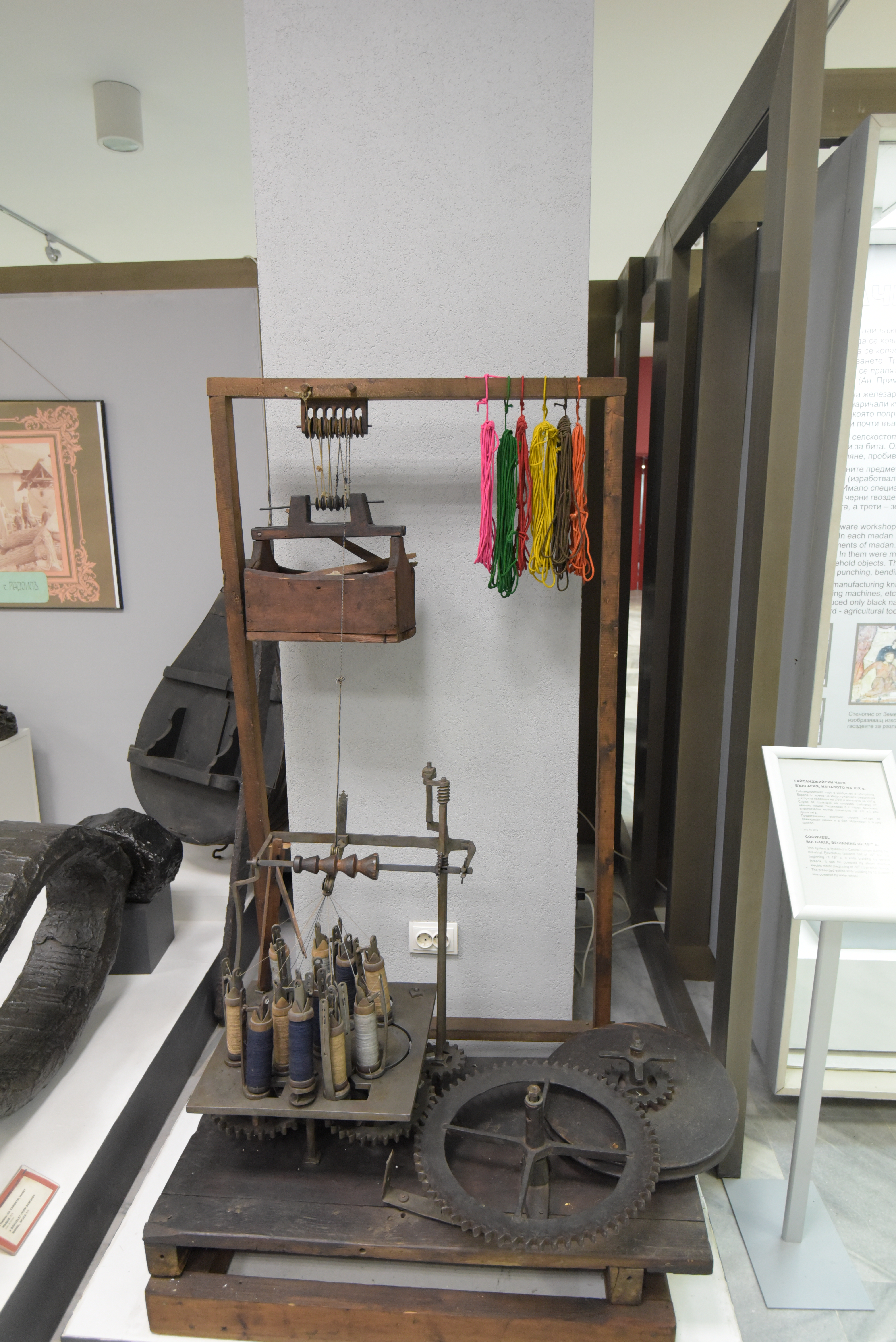 Cogwheel. Bulgaria, beginning of 19-th century. This system is invented in Central Europe during the Industrial Revolution (second half of 18-the and beginning of 19-th century). It knits braiding by several threads. It can be powered by steam machine, electric motor (beginning of 20-th century.) or other device. The presented exhibit knits braiding by 12 threads. It was powered by water wheel. Exhibit of the National Polytechnic Museum in Sofia, Bulgaria.